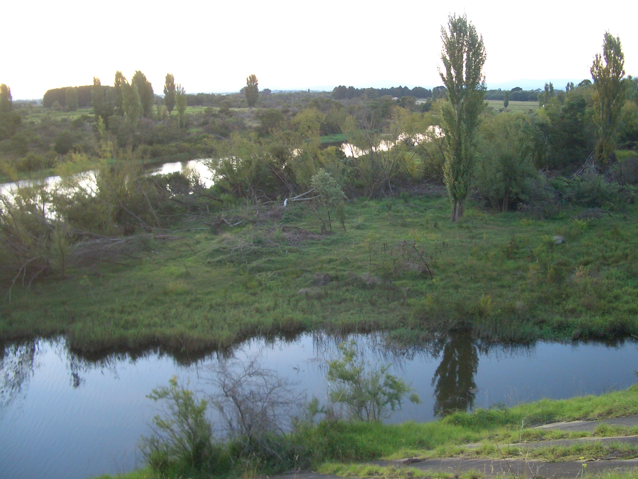 The Avon River, just SE of Stratford, in Gippsland, Victoria, Australia